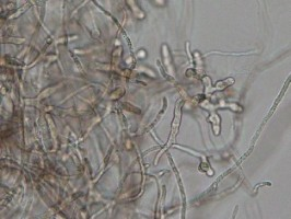 Filamentous sporangia of Pythium myriotylum